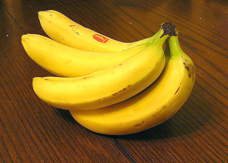 Bananas. Photographed by Adrian Pingstone in March 2004 and released to the public domain.